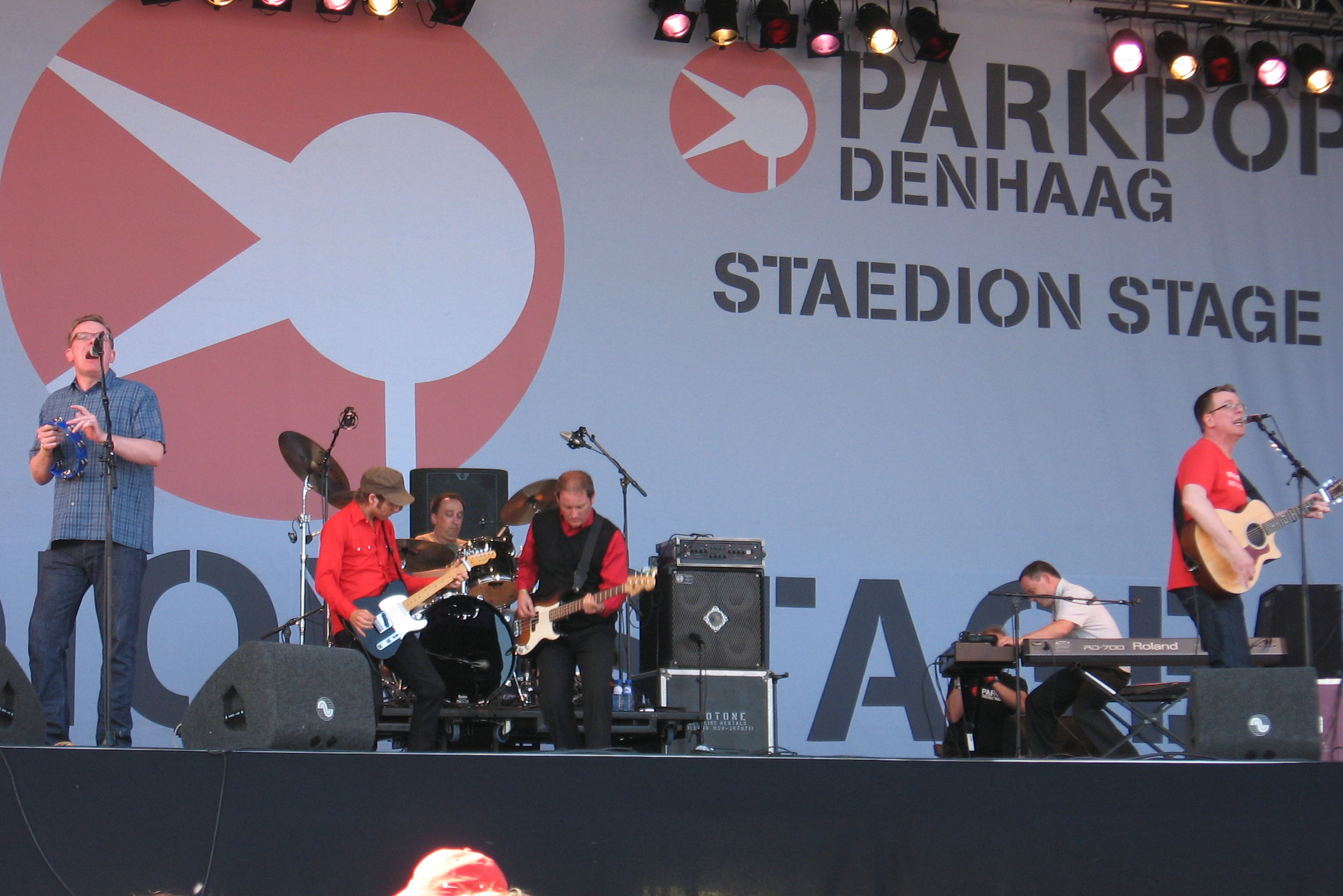 The Proclaimers on stage at Parkpop 2008, in The Hague, Netherlands